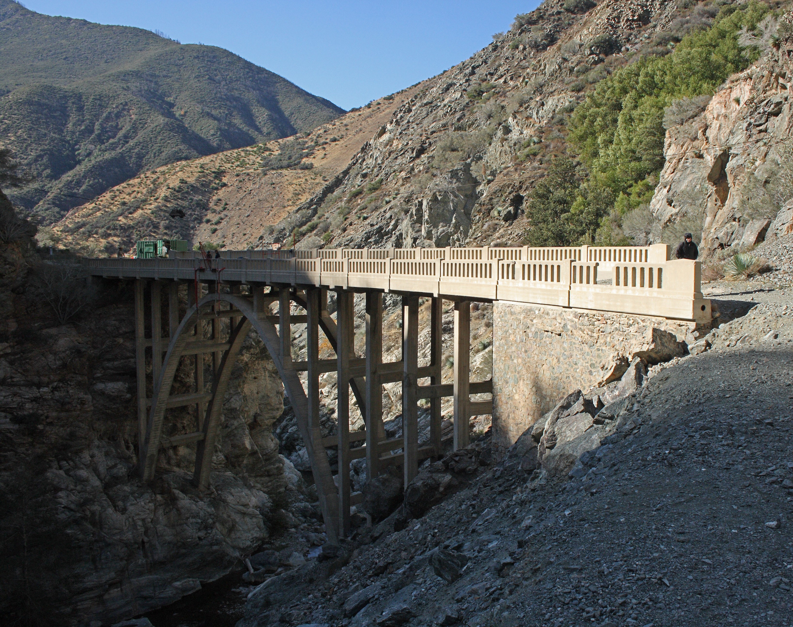 The bridge to nowhere from across the hiking trail leading to it.